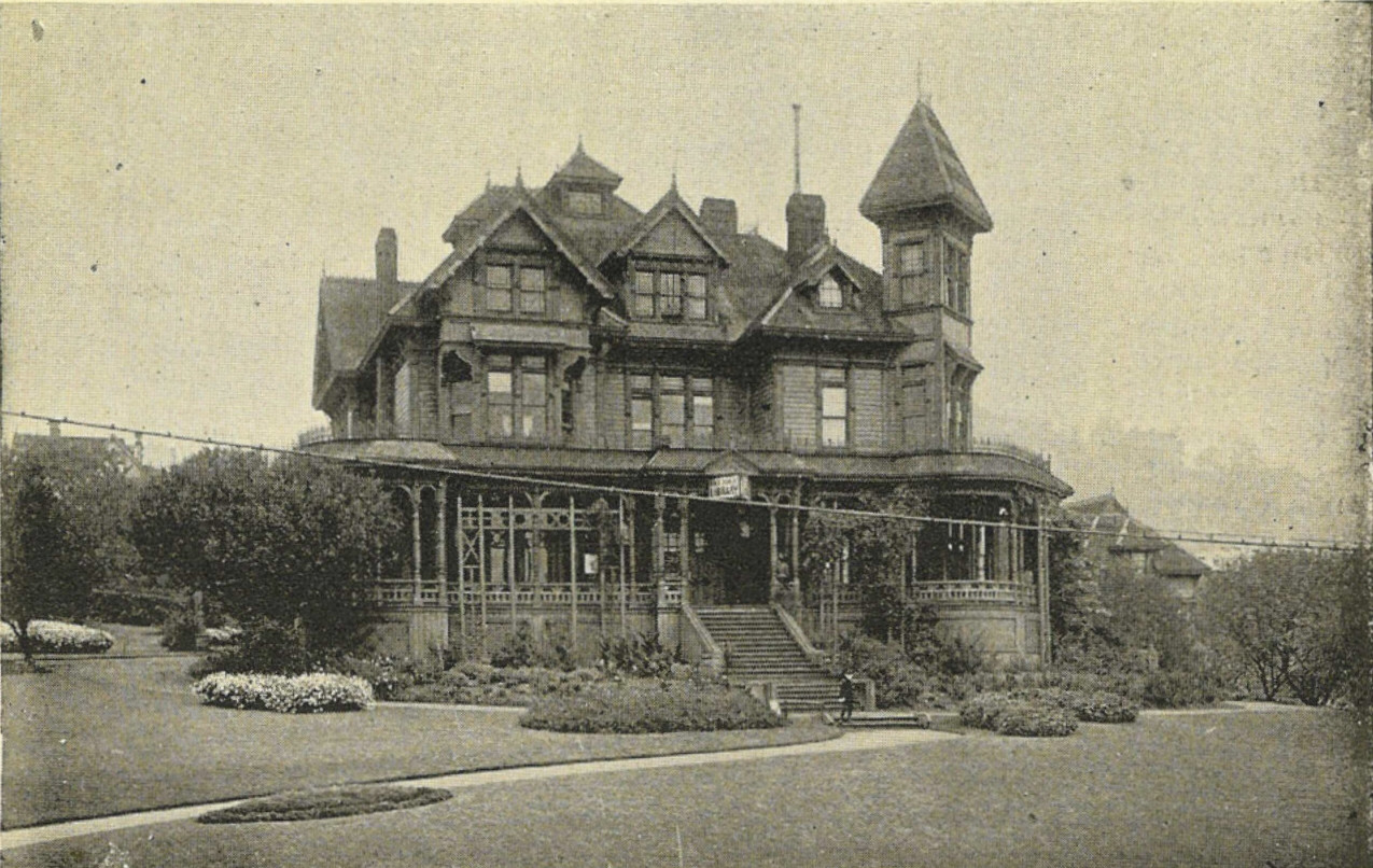 "The Public Library Building. / The property belongs to the Yesler Estate, Incorporated," from brochure Seattle and the Orient (1900). This library, the former Henry Yesler home at Third and James, burned soon after this picture was taken, on January 2, 1901. It was replaced by a Carnegie library in a different location.